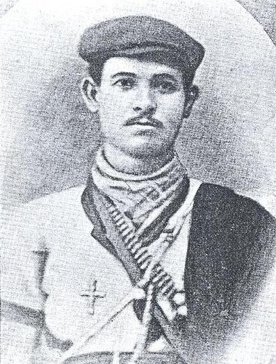 IMARO member Dimitar G. Dinev Hadzhiata from Gevgeli, chetnik in cheta of Sava Mihaylov